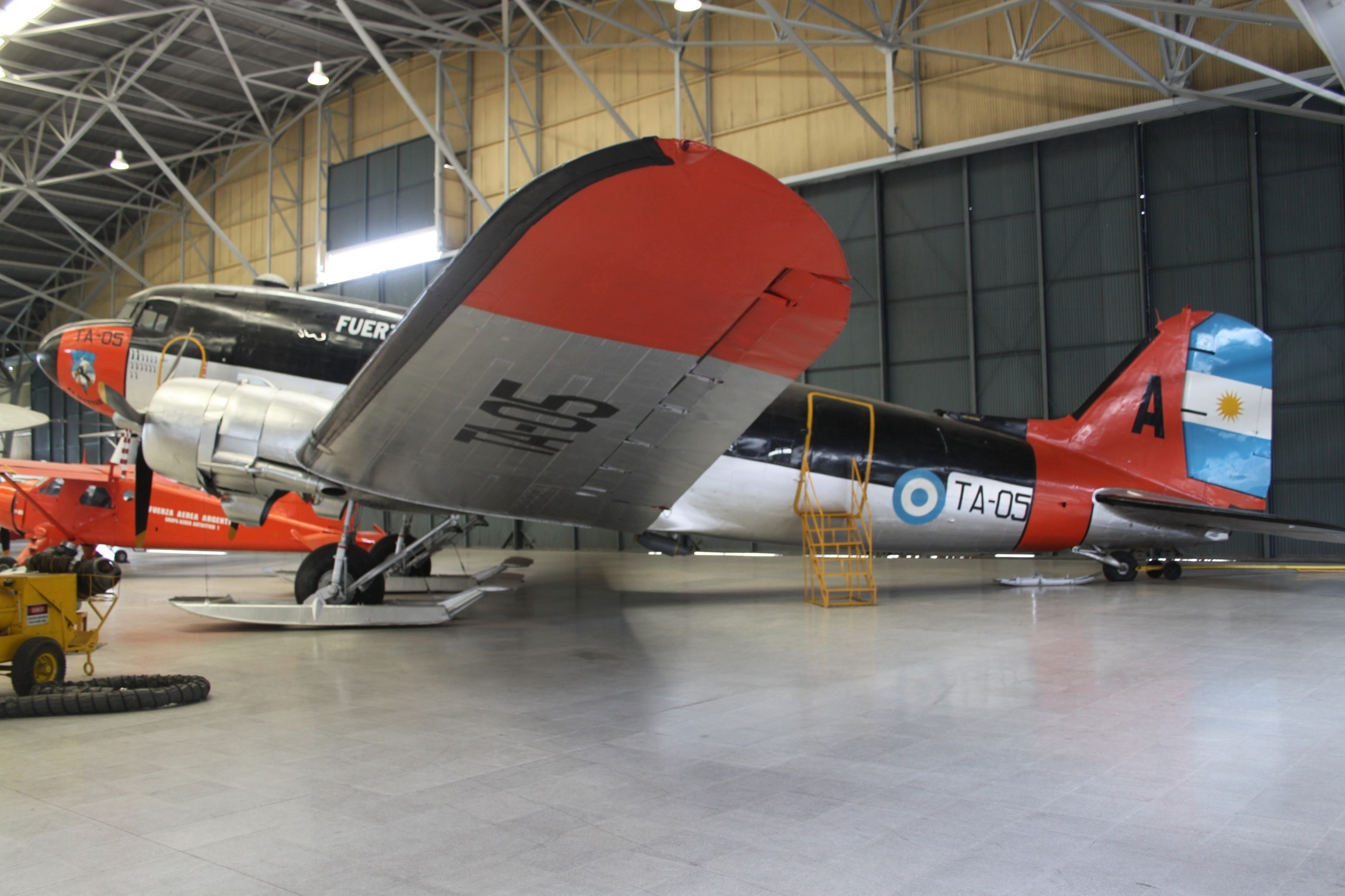 At Moron Museo Nactional De Aeronautica